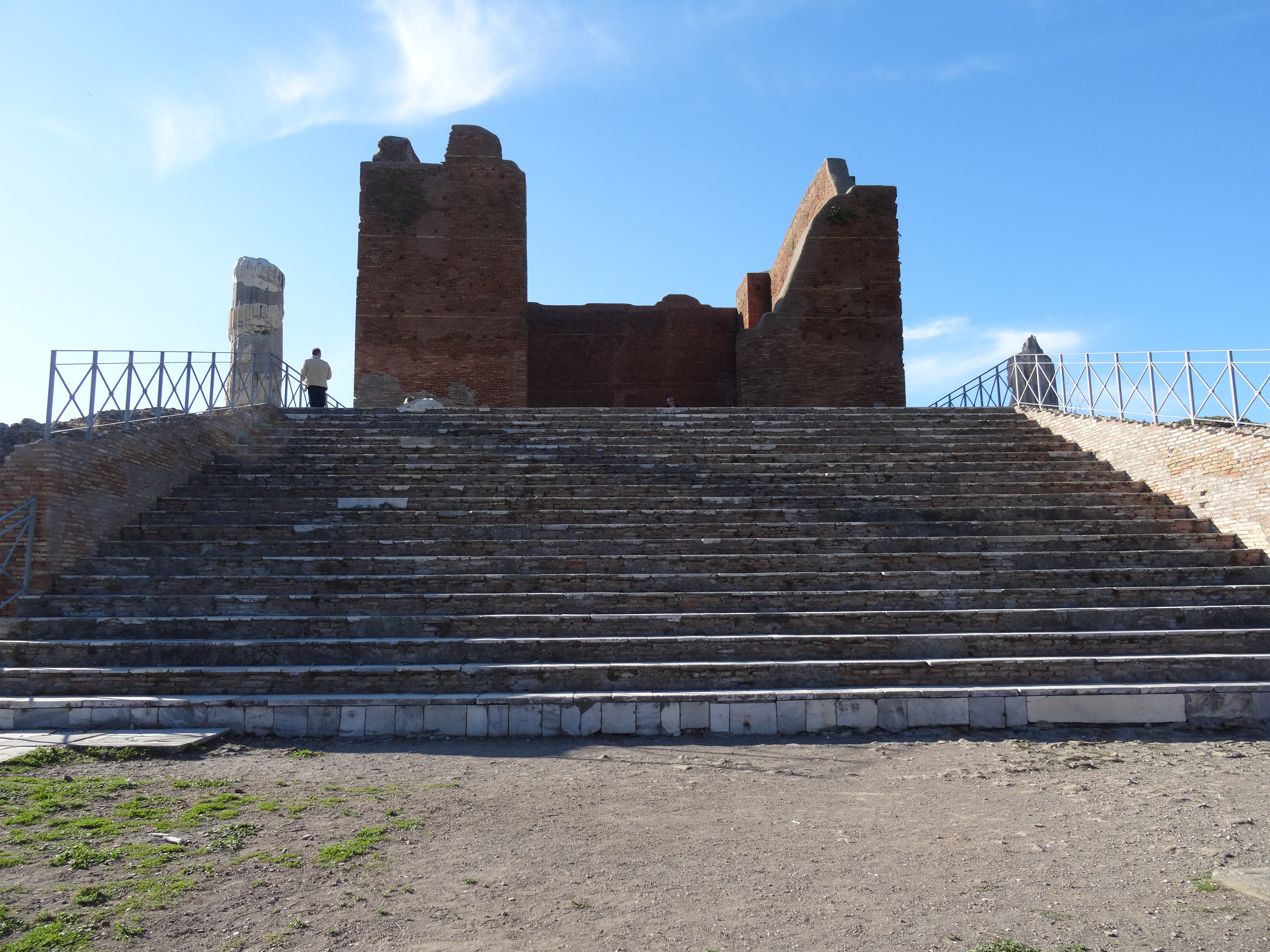 Ostia Antica